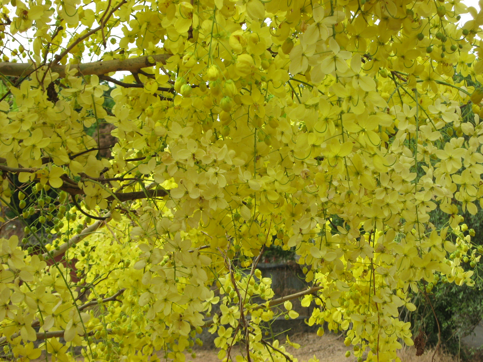 Laburnum tree in full bloom in Maharashtra, India